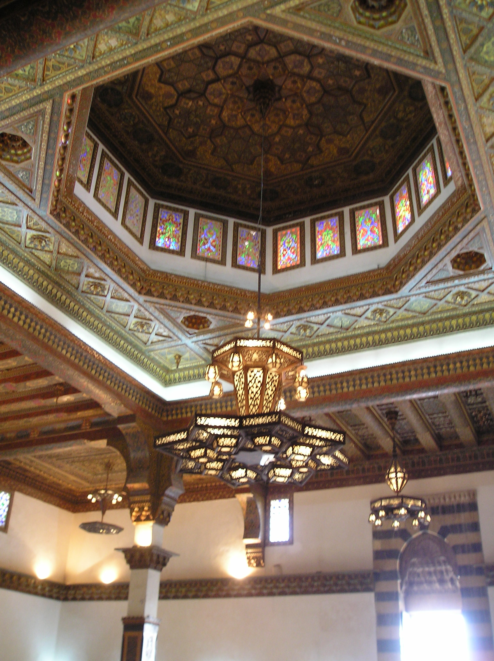 Aleppo citadel, the throne hall